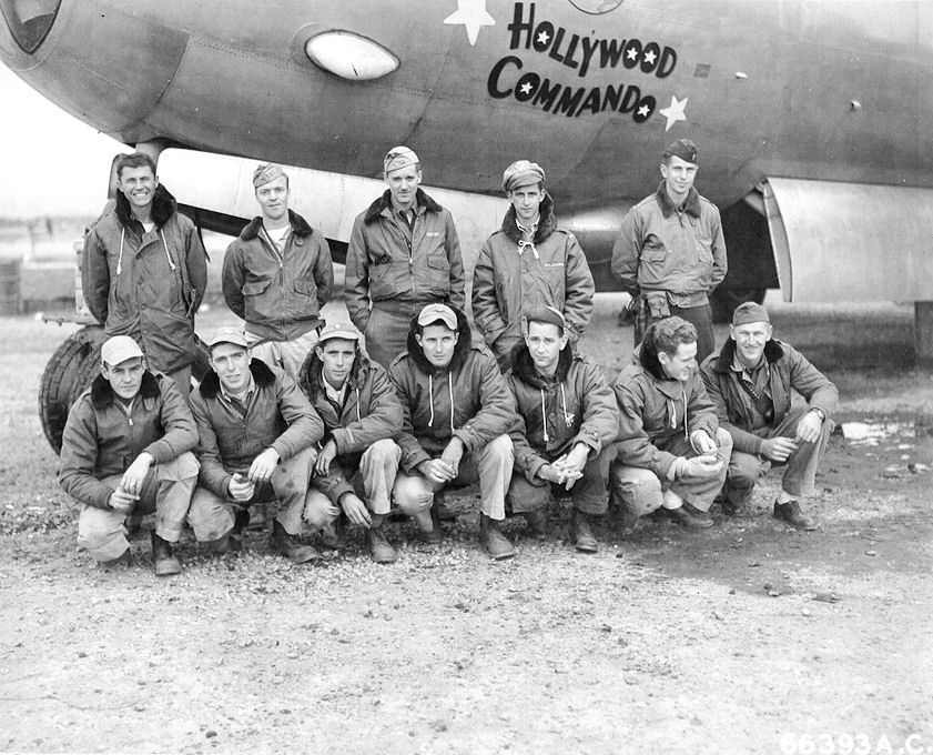 Crew members of the Boeing B-29 Superfortress "Hollowood Commando" of the 677th Bomb Squadron, 444th Bomb Group, XX Bomber Command, beside the plane at Kwanghan Airfield (A-3), China, 11 November 1944.